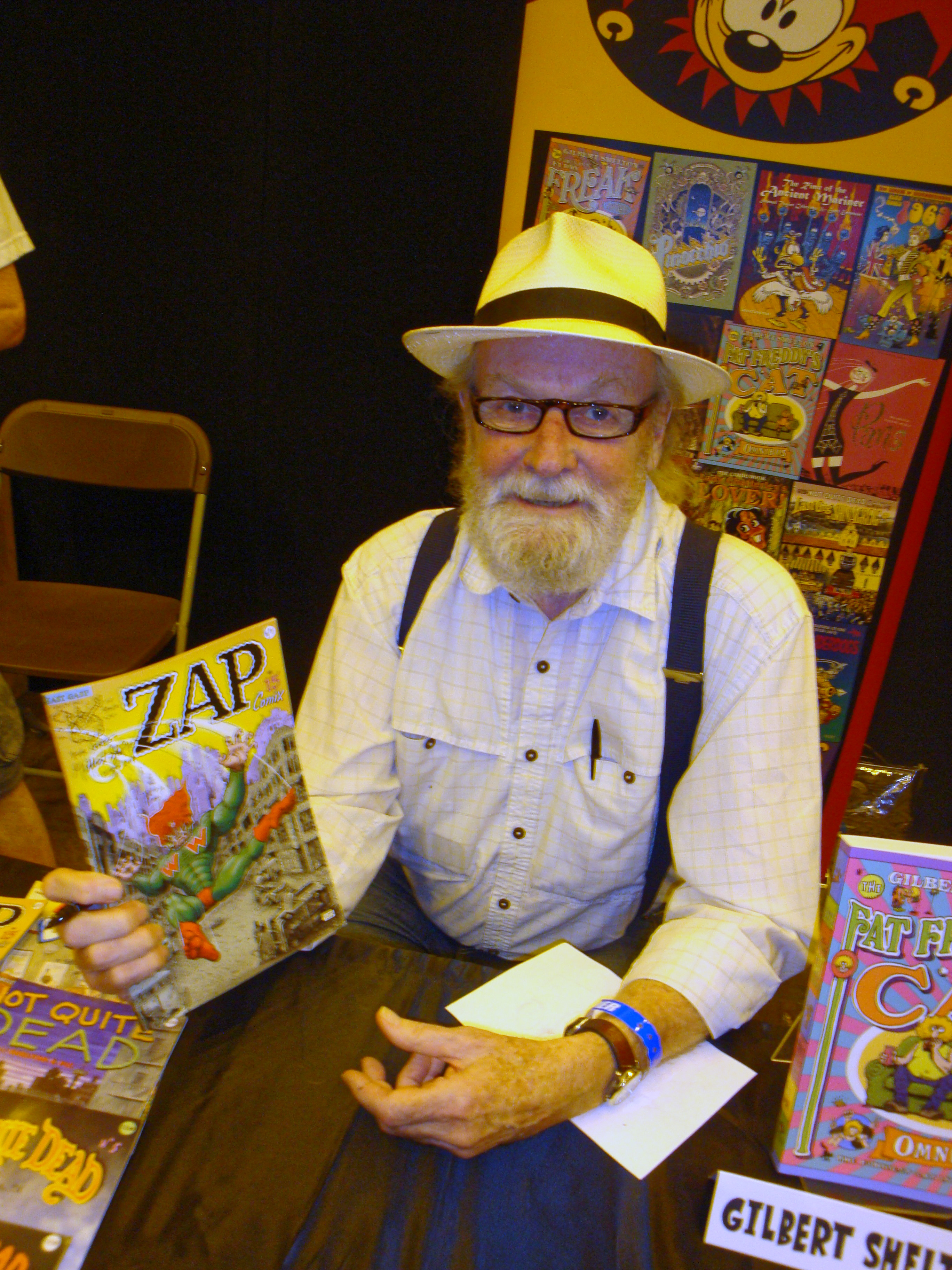 Artist Gilbert Shelton at the London Film and Comic Con in July 2013, holding a copy of Zap Comix 15 with his creation Wonder Wart-Hog on the cover.